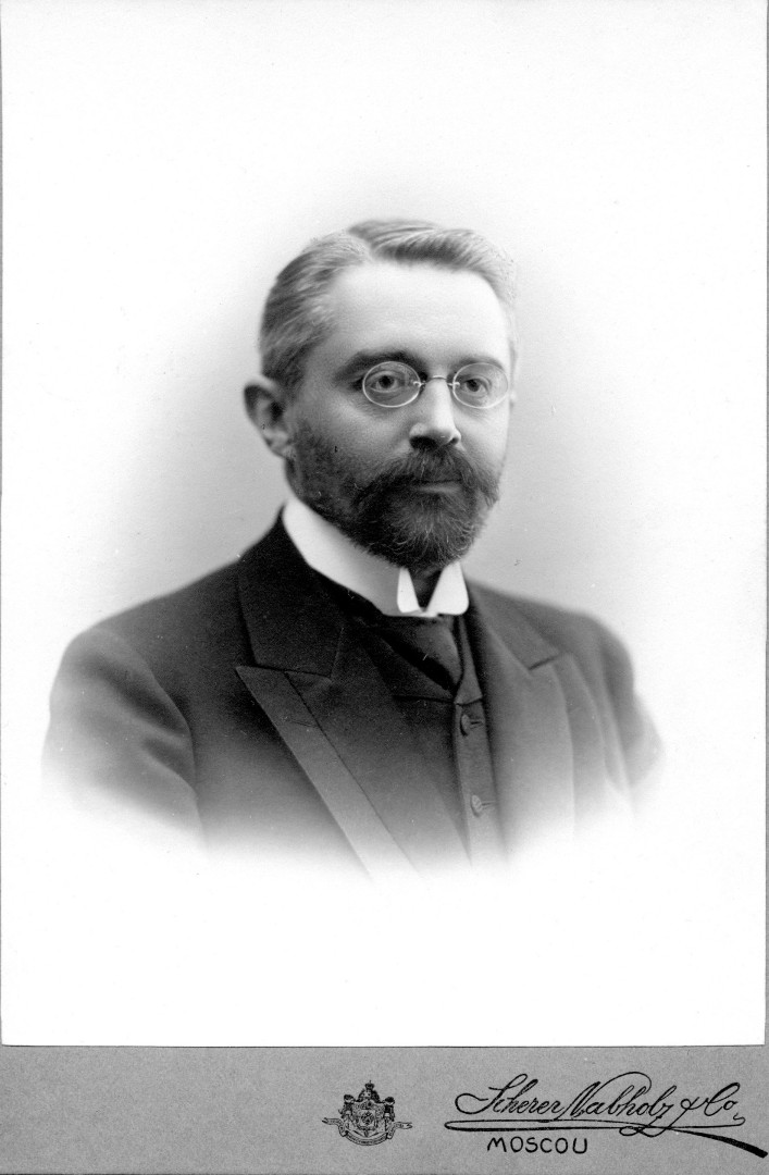 Alfons Worms